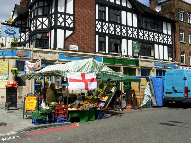 Plender Street, Camden Town. This fruit and veg stall is a fixture at this junction between Camden High Street and Plender Street, outside one of the many fashionable cafe-bars in Camden Town. The St. George flag is currently ubiquitous in England in the run up to the World Cup.